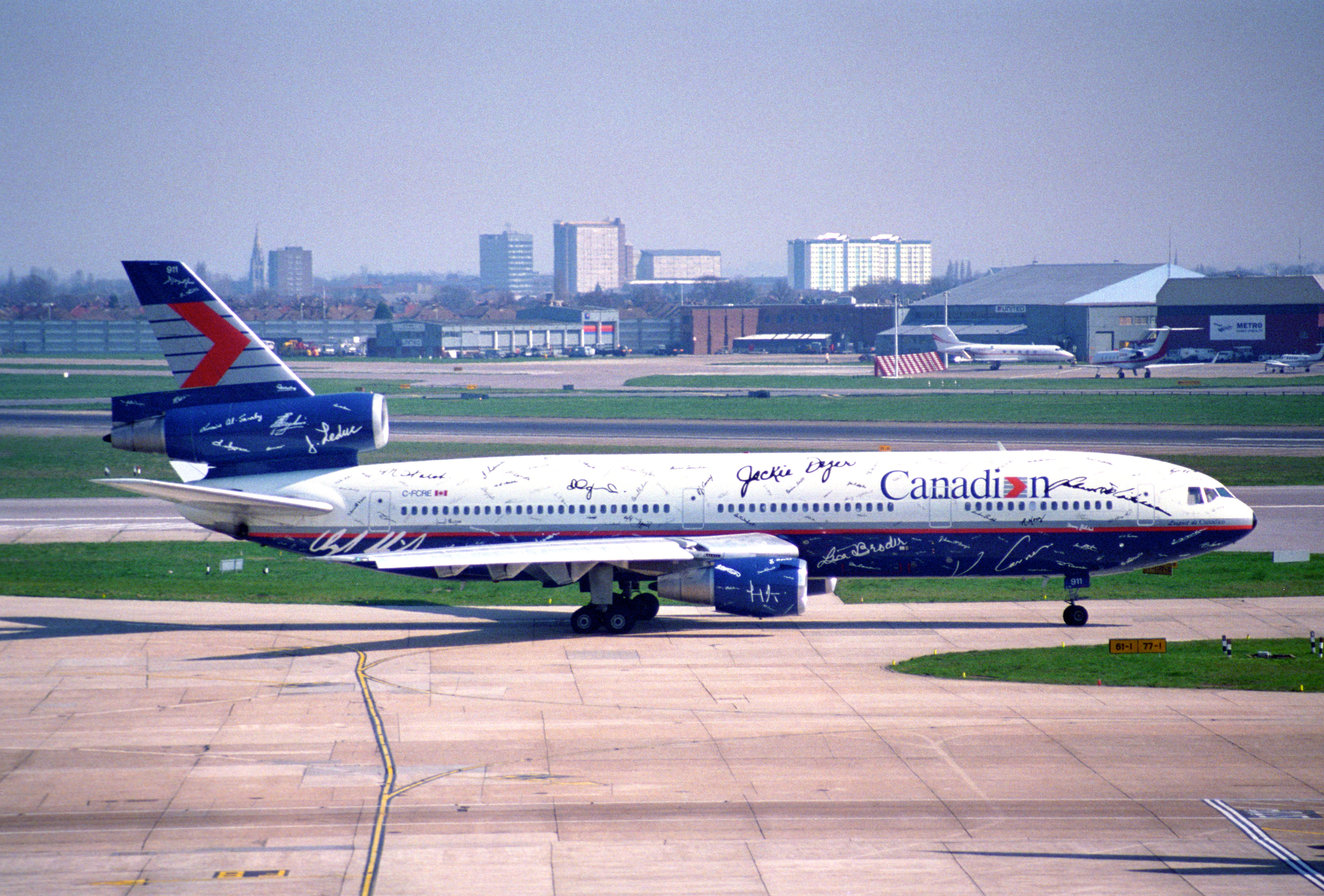 Canadian Airlines DC-10-30; C-FCRE@LHR;13.04.1996